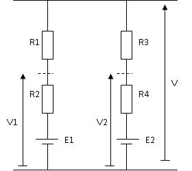 This schematic includes power sources with own internal resistor